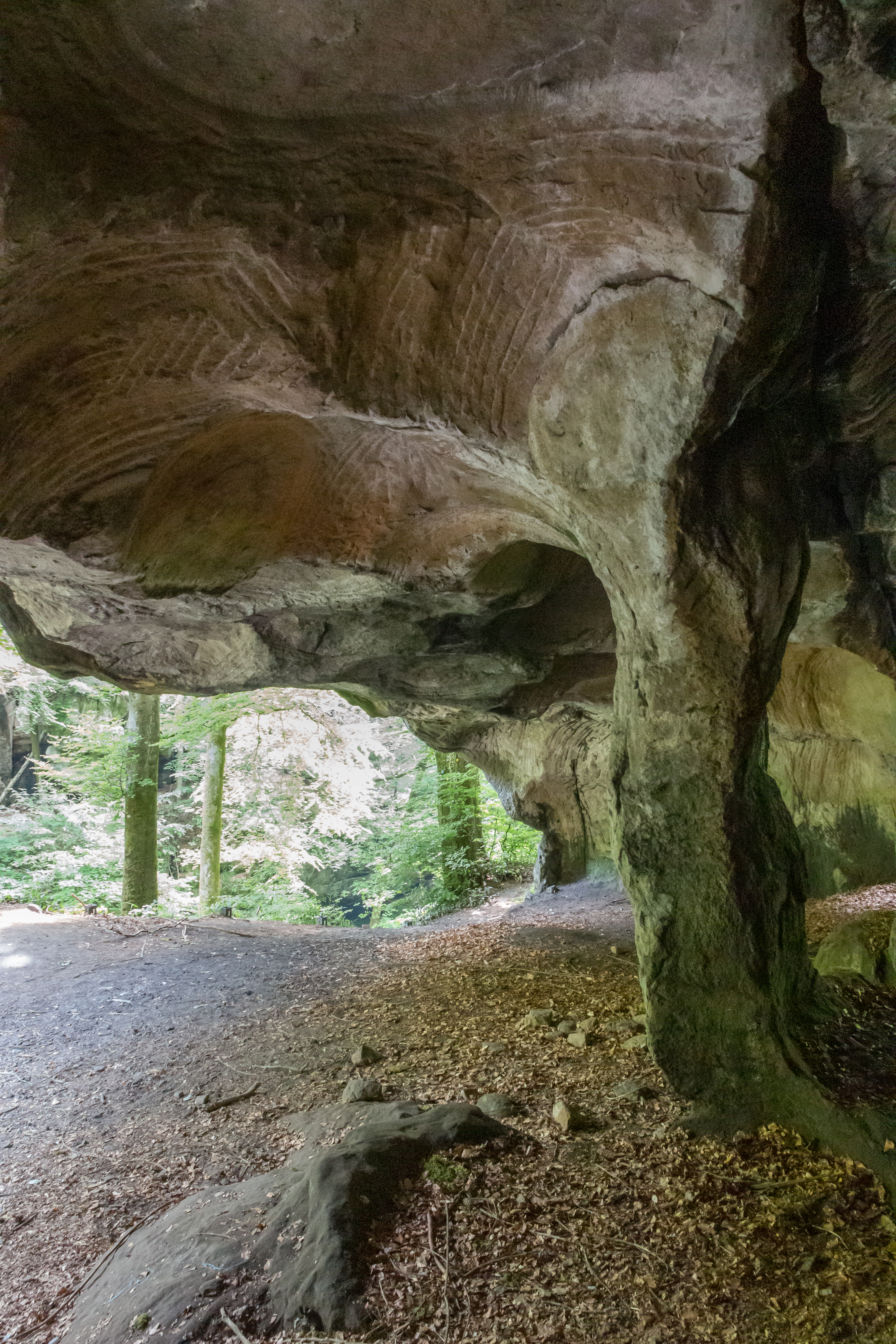 Hohllay (“hollow rock”) in Berdorf, Luxembourg